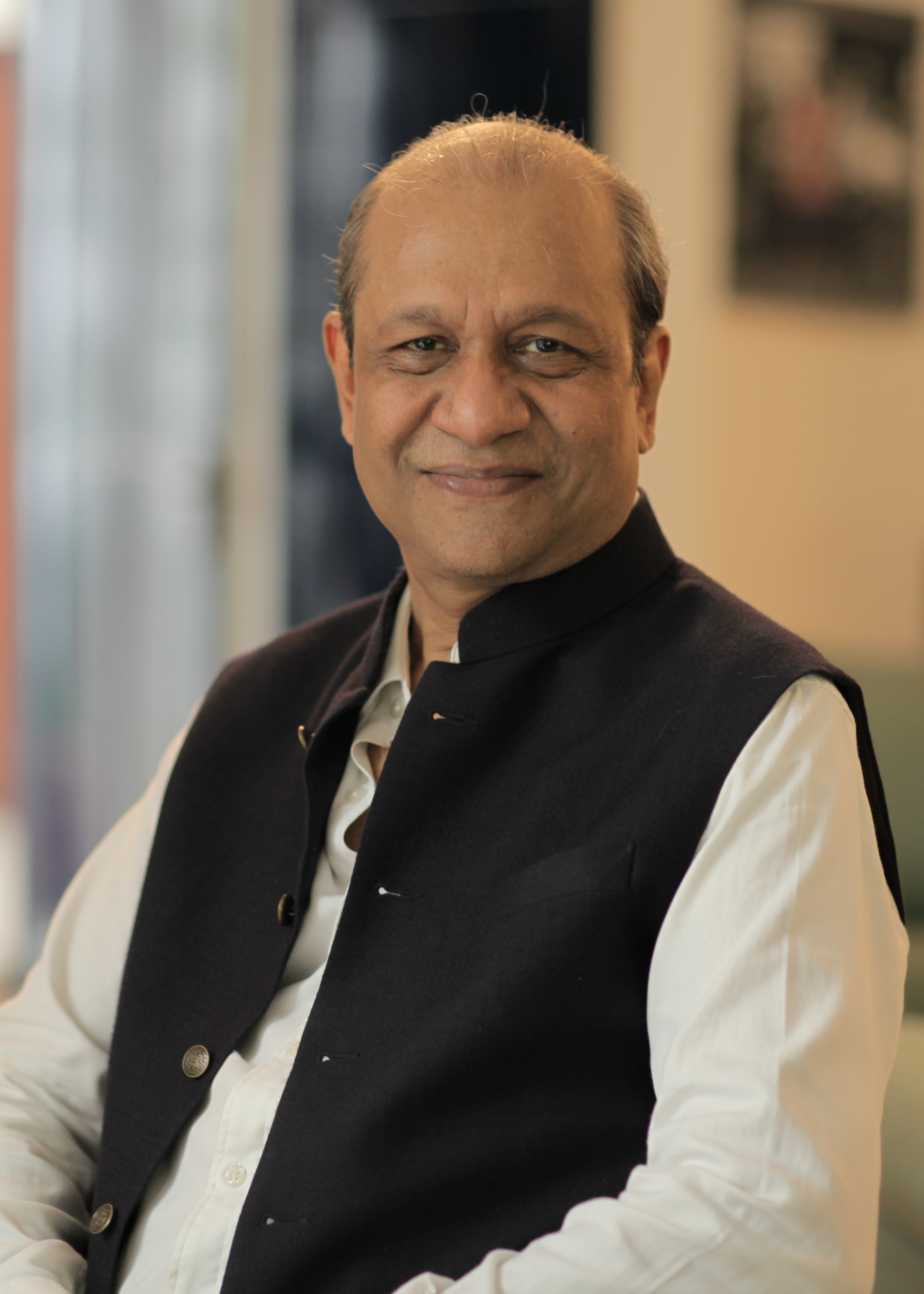 Portrait of Siddhartha Basu